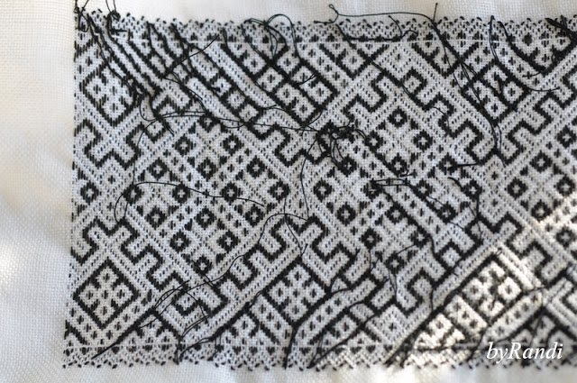 the photo shows the reverse side of a smøyg embroidery, a traditional technique still much used in Norwegian folk costumes. Also known from other countries